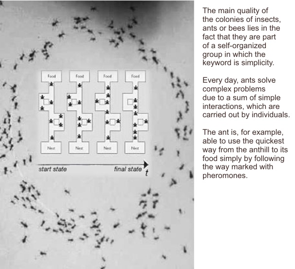 Artificial Ants as part of a self-organized group in which the keyword is simplicity: When a colony of ants is confronted with the choice of reaching their food via two different routes of which one is much shorter than the other, their choice is entirely random. However, those who use the shorter route move faster and therefore go back and forth more often between the anthill and the food.